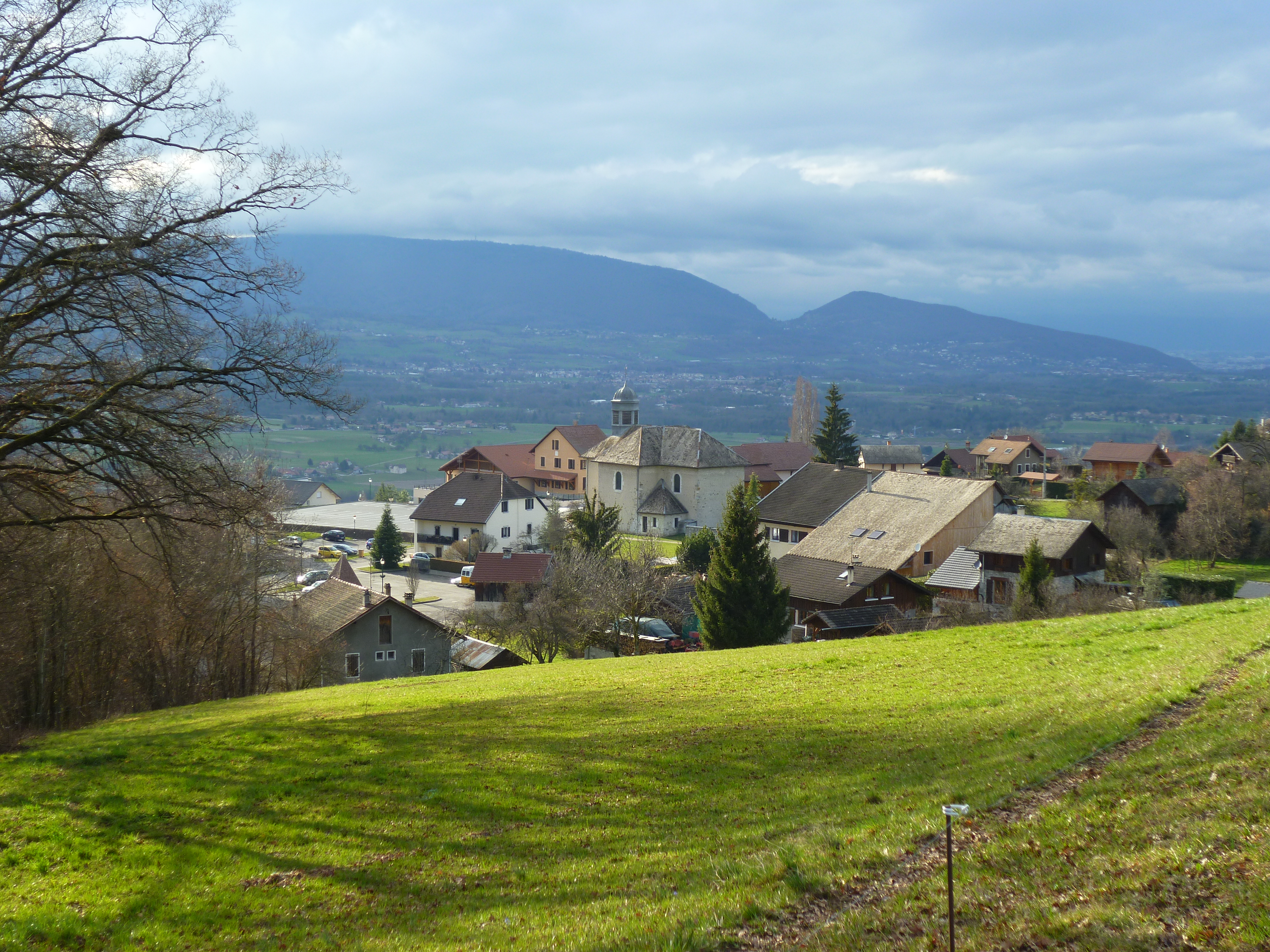 Faucigny in Haute-Savoie